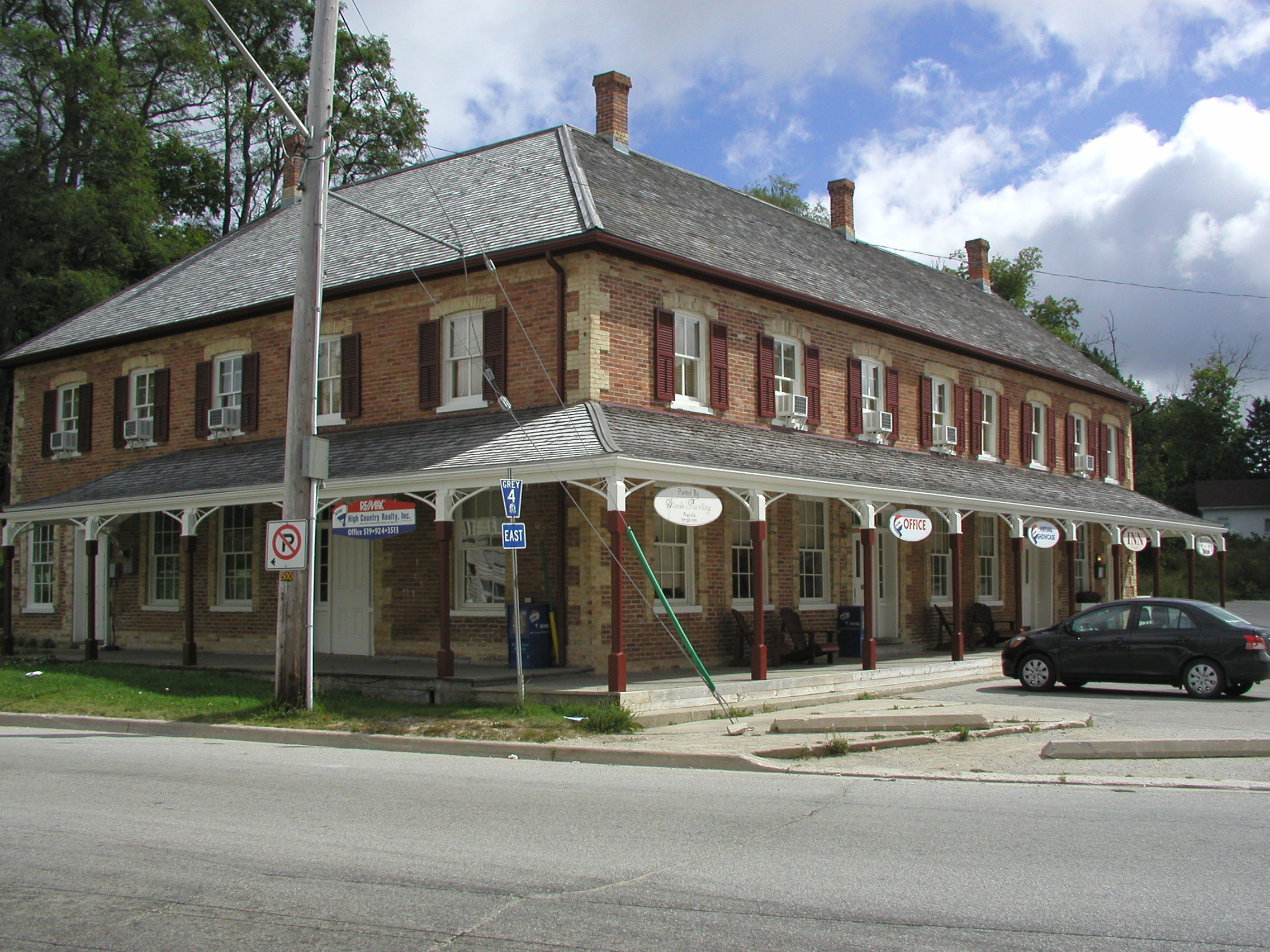 Munshaw House, Flesherton ON Canada, built in 1864 as a stagecoach stop at corner of Toronto-Sydenham Road and Durham Road; the oldest structure in the village.